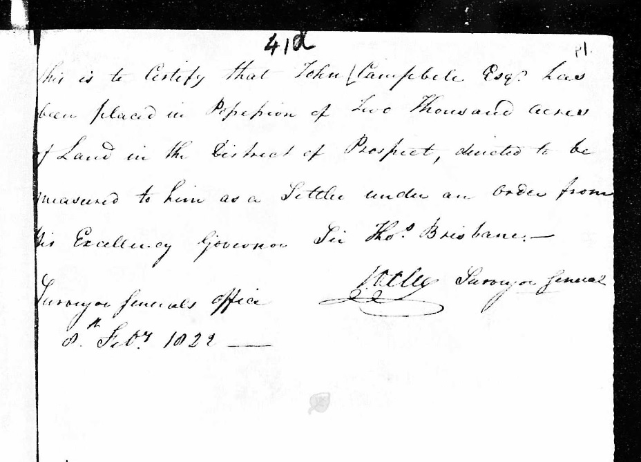 Excerpt from Clonial Secretary's Papers 1822